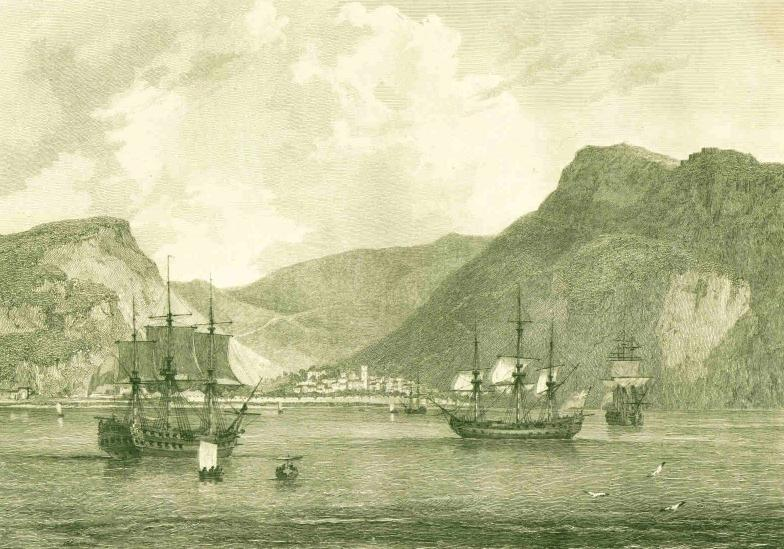 Copper engraving entitled Town of St James, Island of St Helena, 1794 published in London, 1813